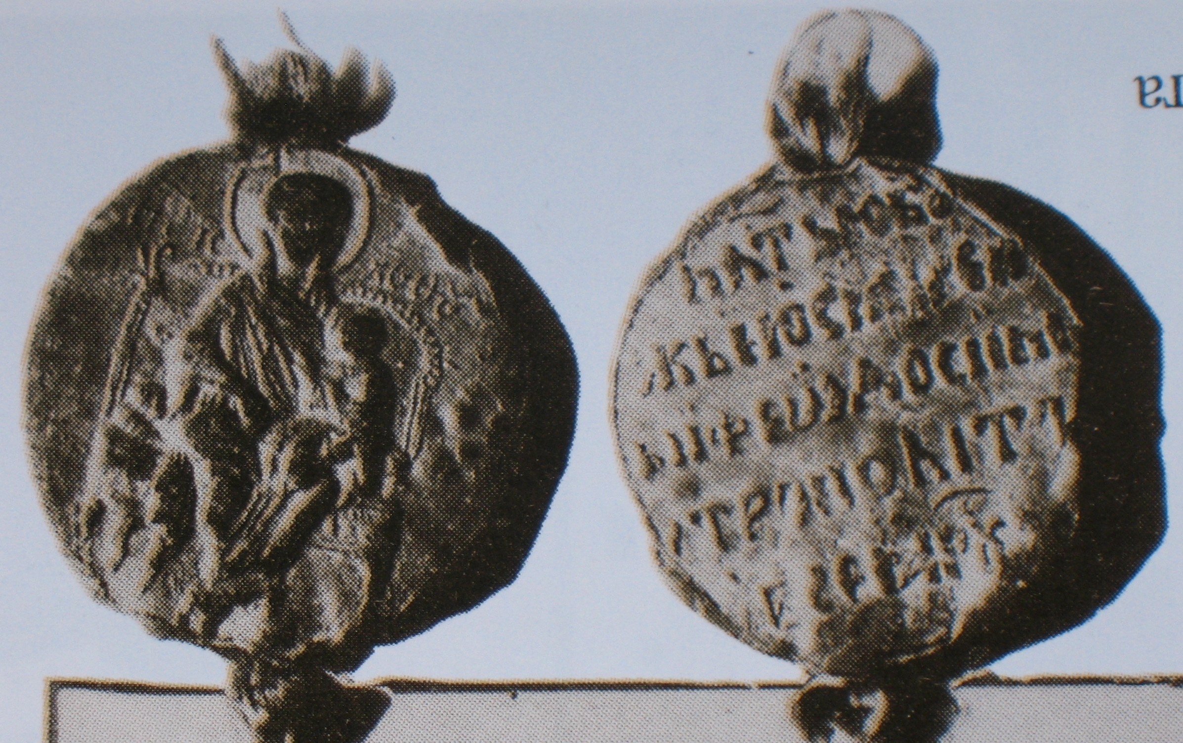 The seal of Russian mitropolit Feodosii. Митрополит Феодосий (Бывальцев); ? — 1475), печать.